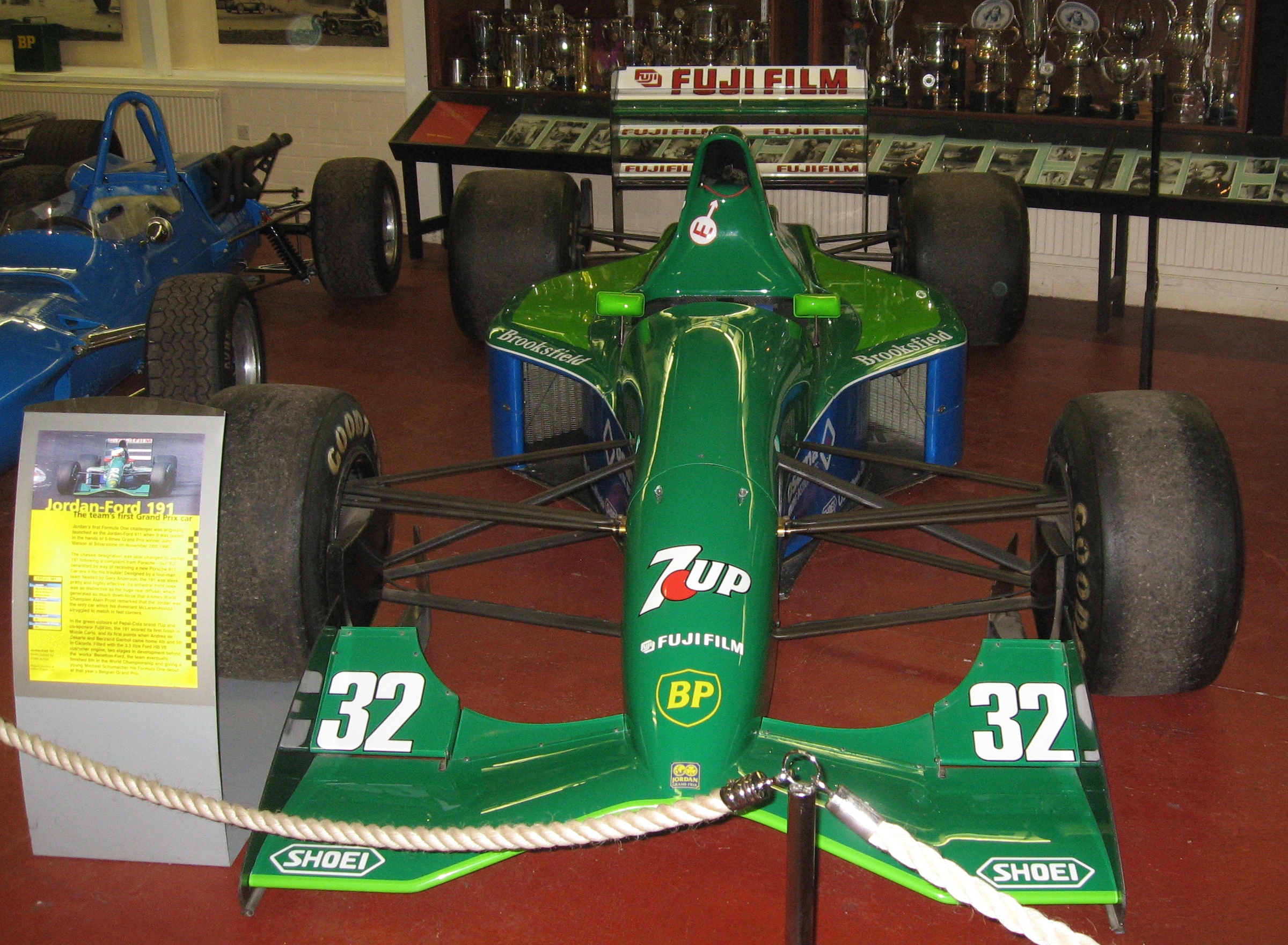 Photo taken by self, Spute. 1991 Jordan Ford 191 Formula One car, on display at Donington Grand Prix Collection museum.